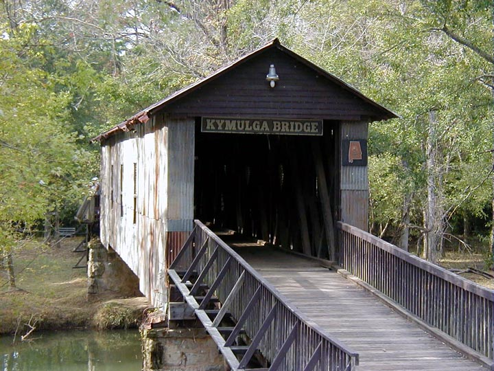 The Kymulga Covered Bridge in Talladega County, Alabama.